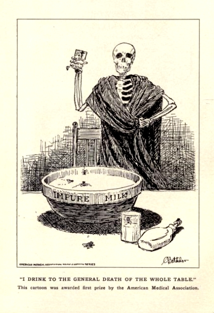 Impure Milk- Drawing from the book of Nathan Straus on the pasteurisation of milk.